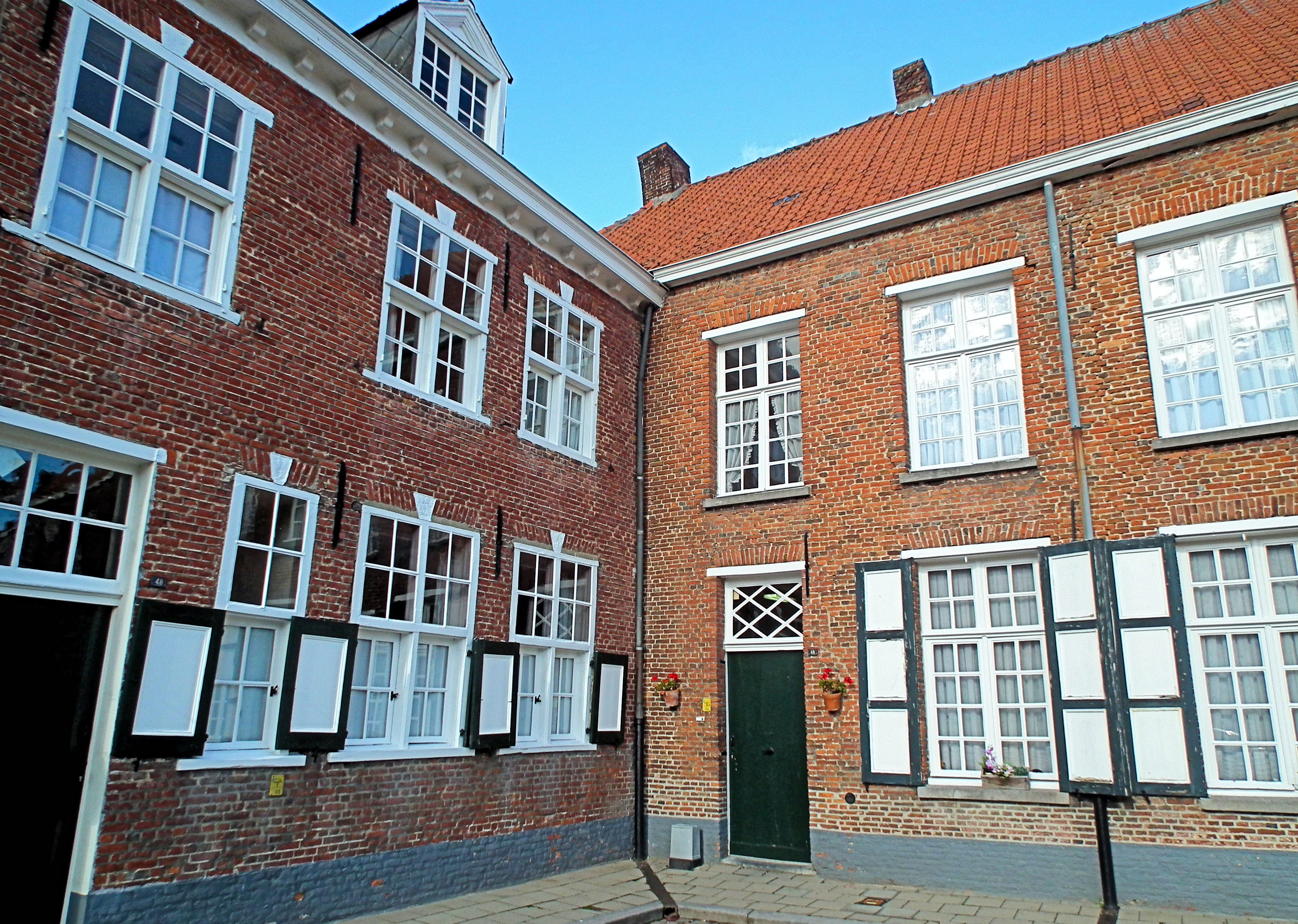 Belgium - Turnhout. Beguinage - World Heritage